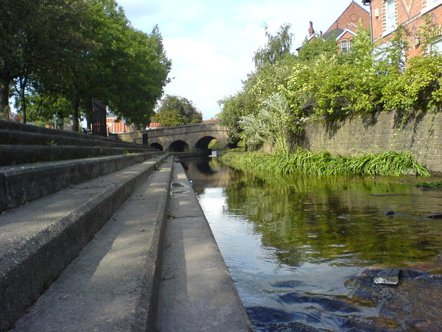 Bulwell Bogs View of Bridge to train station This is a view from Bulwell bogs (which won a Green flag award in 2003)looking towards the old bridge that leads to Bulwell Train and Tram Station